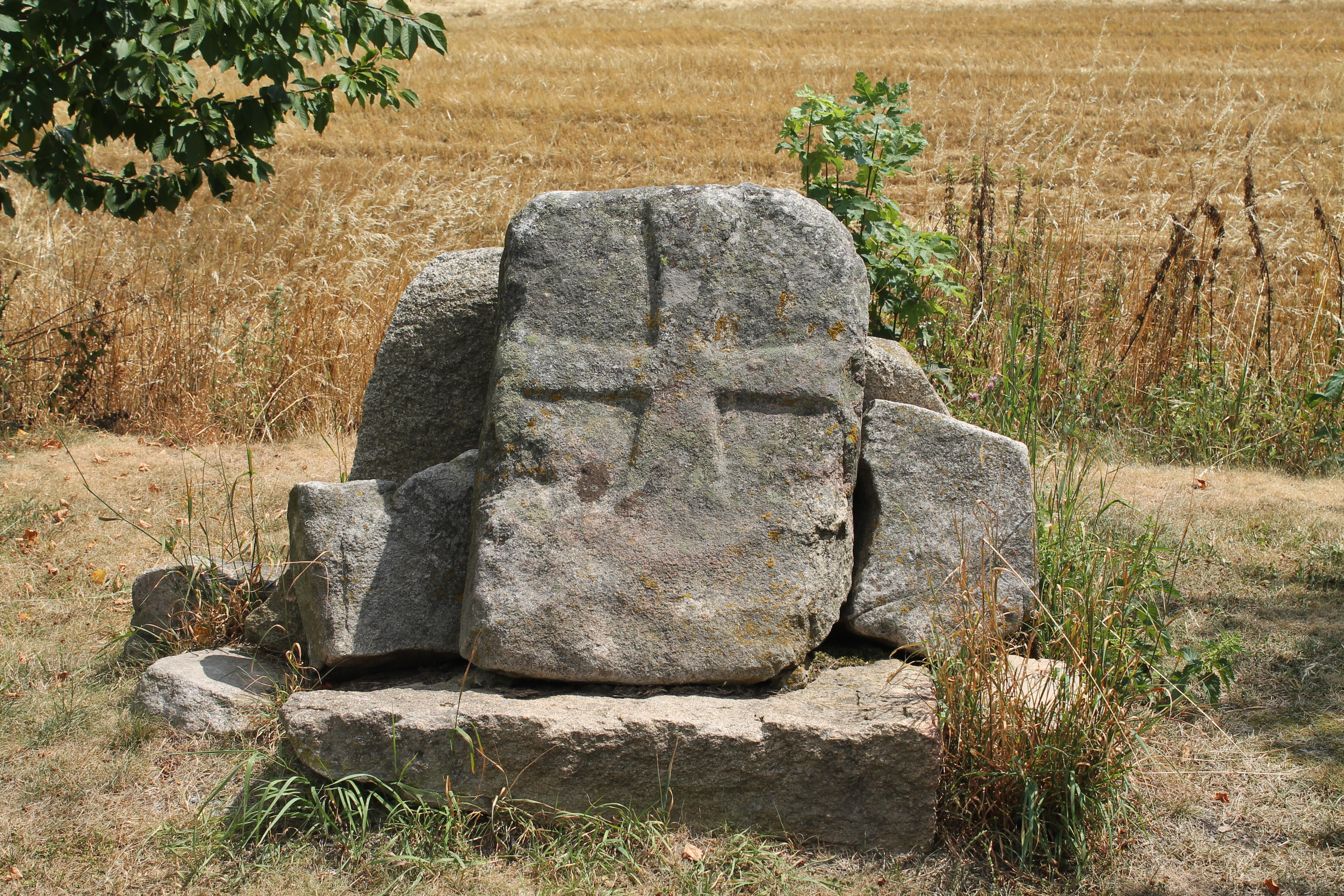 Border stone, Milíčov, Jihlava District, Czech Republic